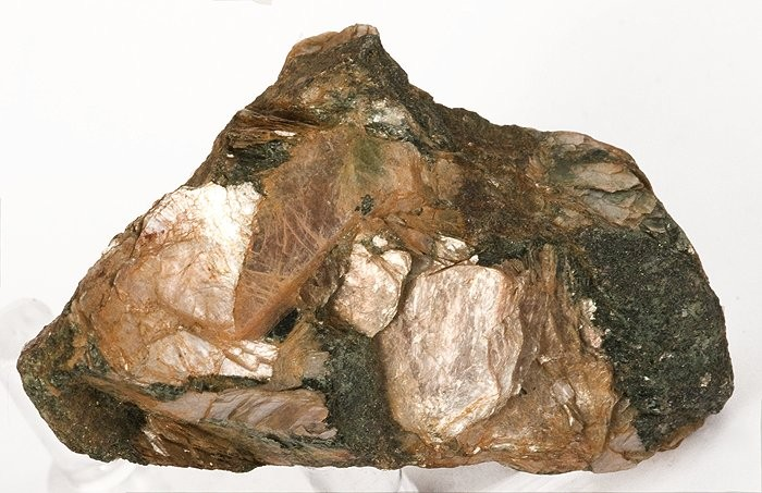 Margarite Locality: Chester Emery Mines, Chester, Hampden County, Massachusetts, USA (Locality at ) Size: 6.5 x 3.8 x 3.2 cm. Margarite is a rare mica group mineral. This rich and fine old-time piece features pearlescent, brownish, stacked margarite plates aesthetically embedded on all side of the matrix. This classic specimen is from the historic Chester Emery Mines of Massachusetts, where margarite was discovered in 1864. The collection this came out of was a museum stash dating to prior to World War I.